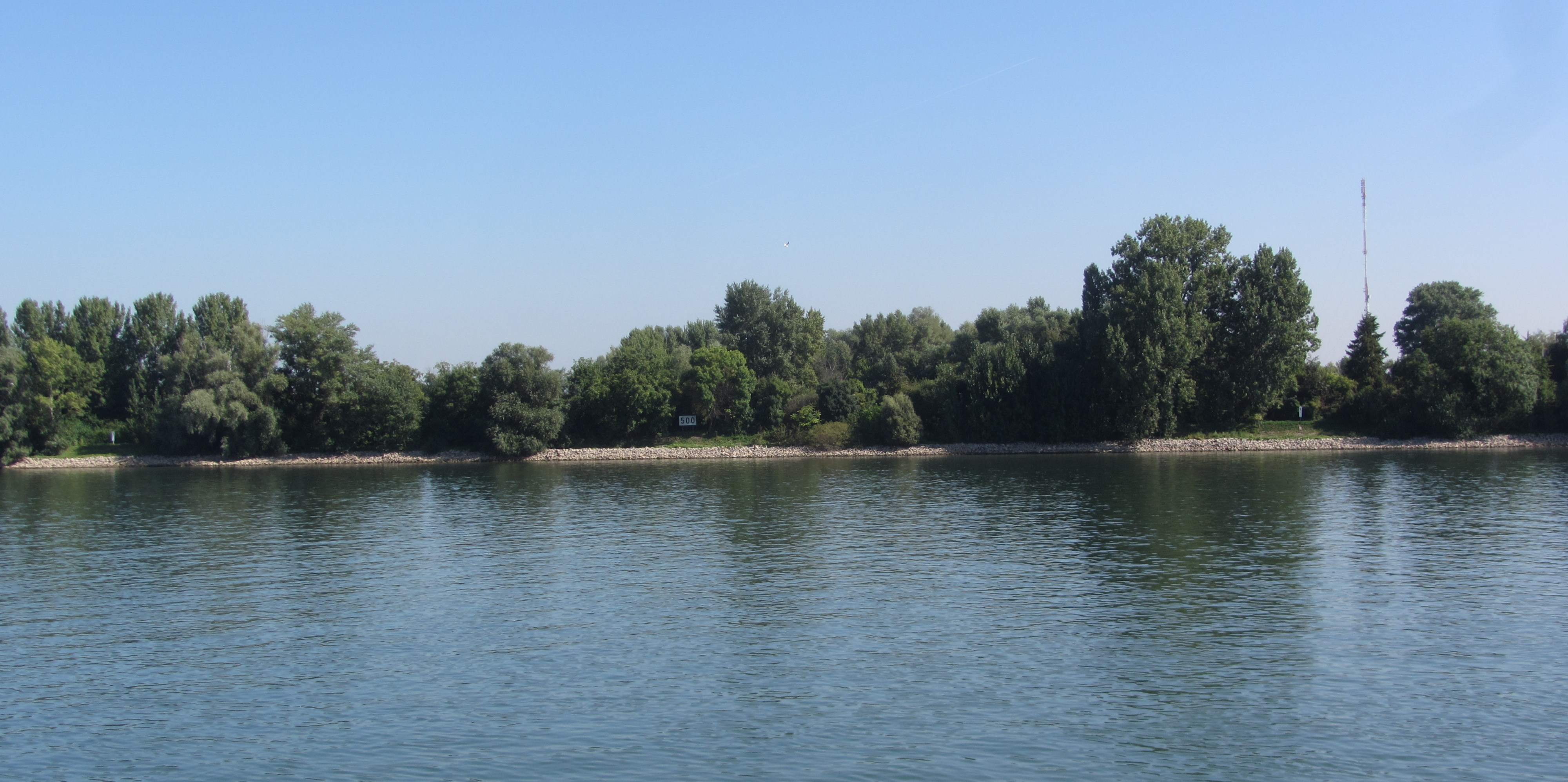 Rhine island Petersaue opposite Mainz with sign for Rhine kilometer 500